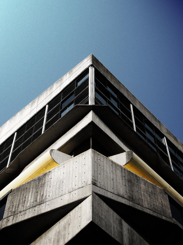 biblioteca nacional